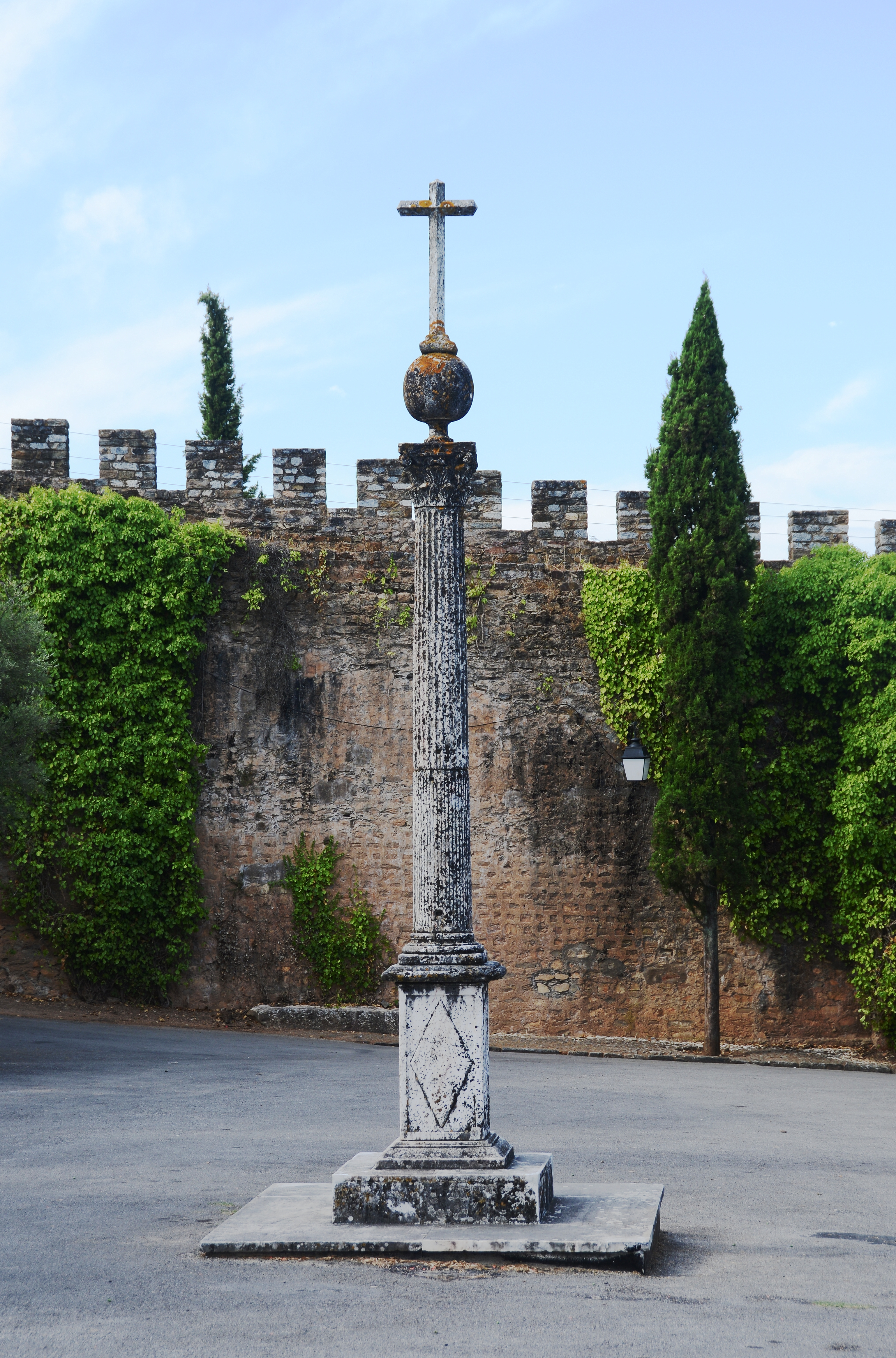 Pilloy in the Castle of Vila Viçosa, Portugal